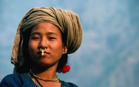 Portrait of a Limbu Woman (Lonely Planet images).